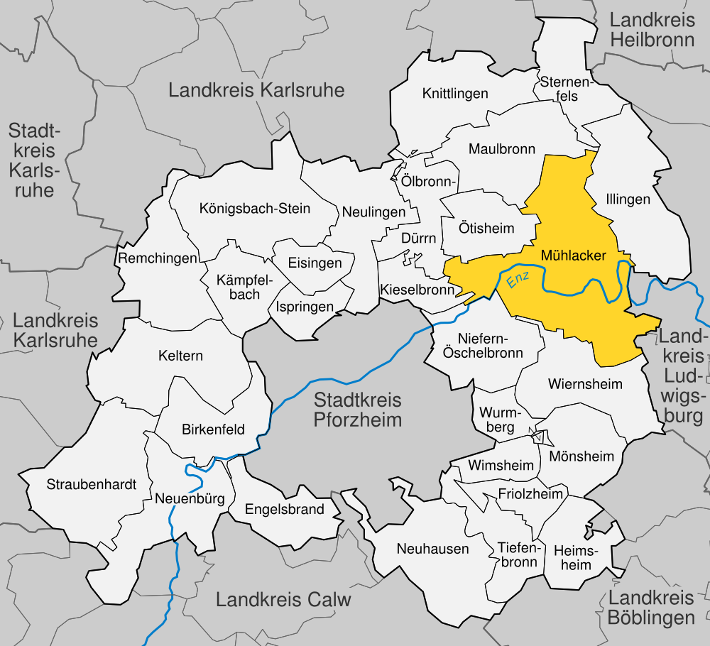 position of Mühlacker within distict of Enzkreis, Baden-Württemberg, Germany